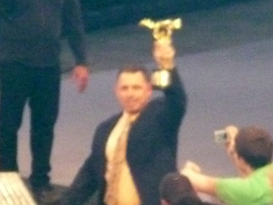 Michael Cole making his entrance prior to the WWE Raw taping on April 18, 2011. He is holding his Slammy Award in the air.